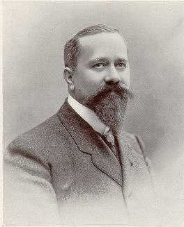 French physician and biologist Albert Calmette (1861-1933)